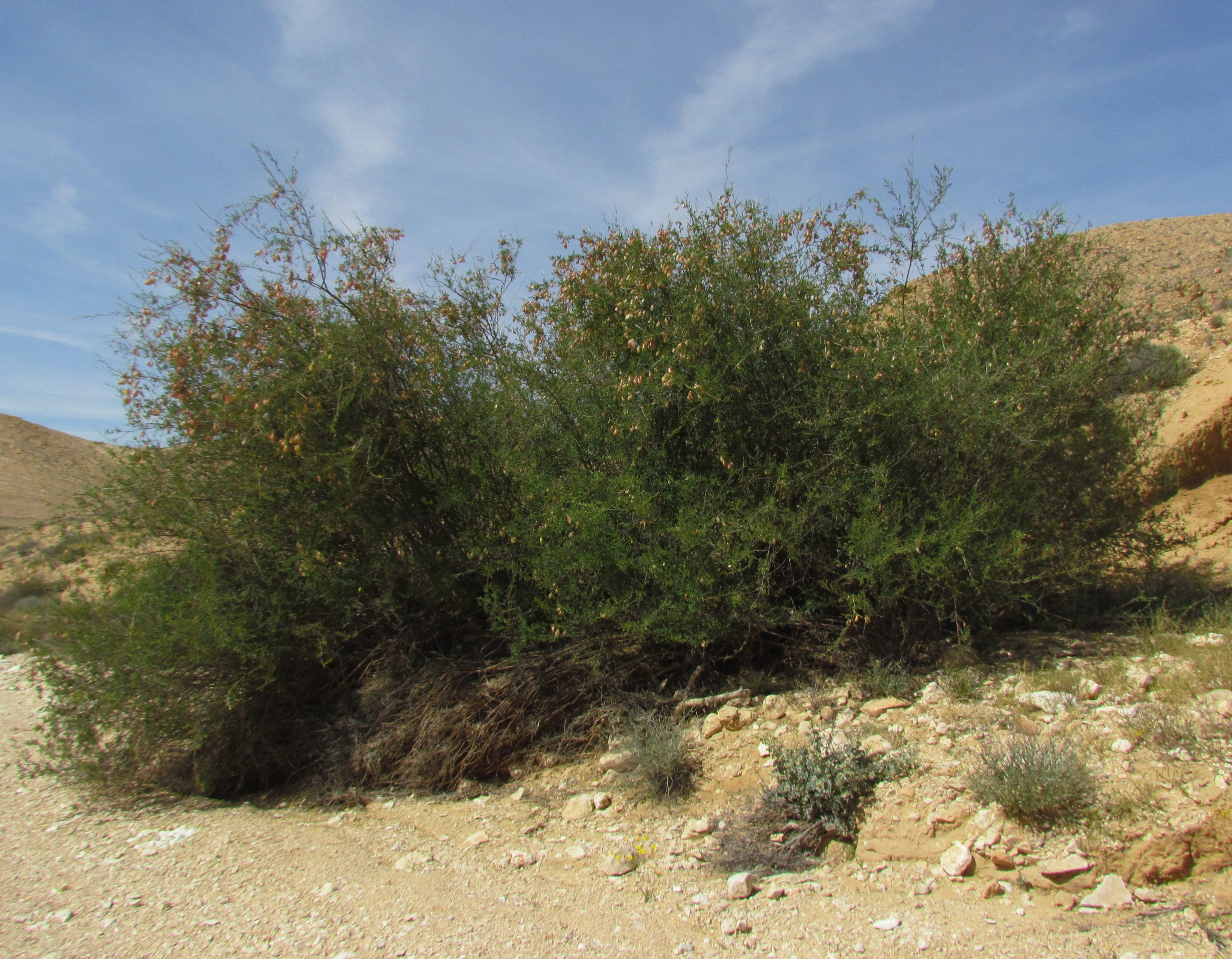 בנחל אליאב 5 באפריל 2014 ,Colutea istria שיח קרקש צהוב